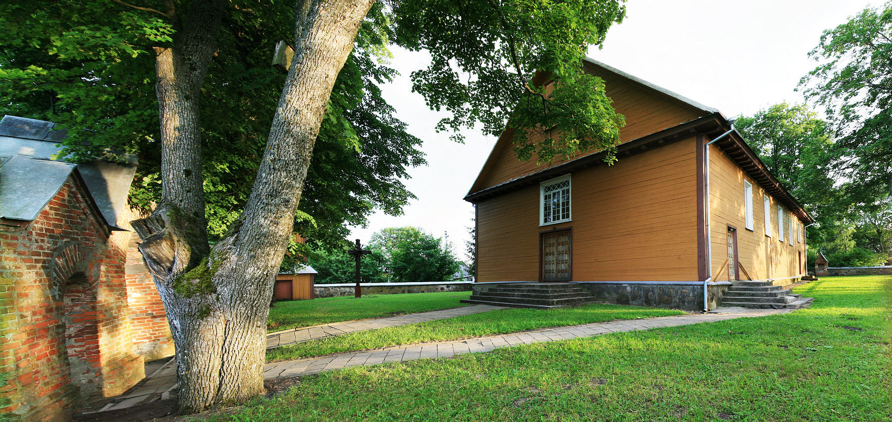 Roman Catholic church in Bagaslaviškis, Lithuania